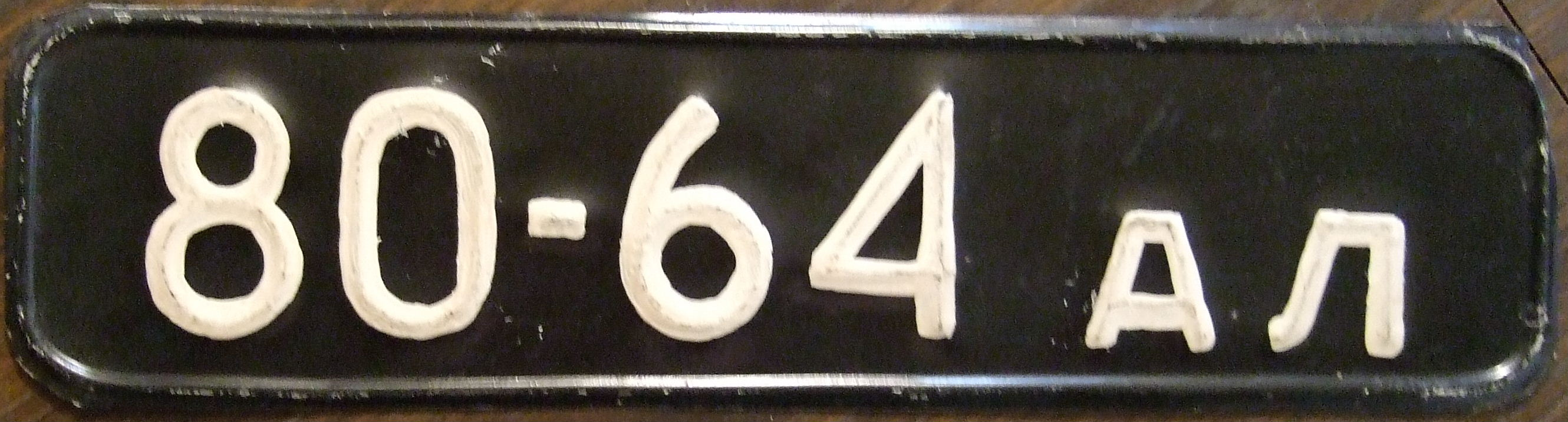 This military plate though obtained in the Altai Krai bordering Kazakhstan may have been issued who knows where. This is where the plate ended up though.